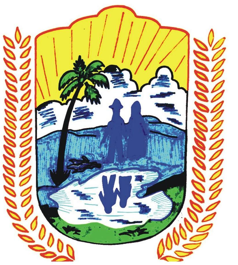 Brasao de Boa Viagem - Ce